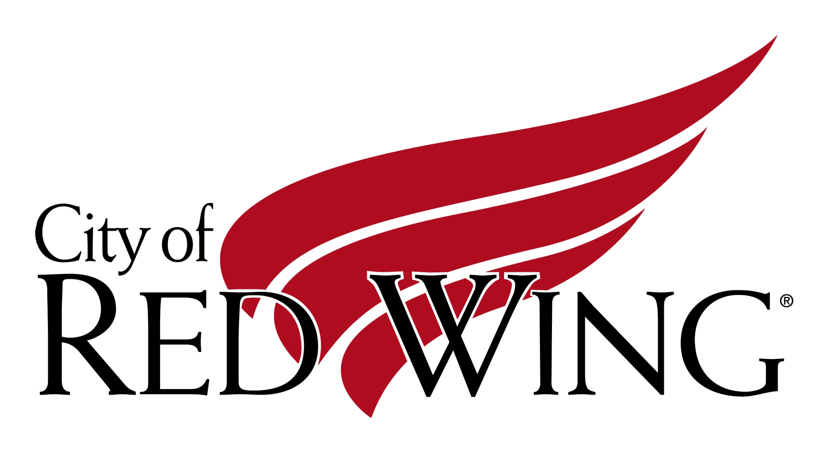 Flag of Red Wing, Minnesota. The Flag is based Off the Emblem